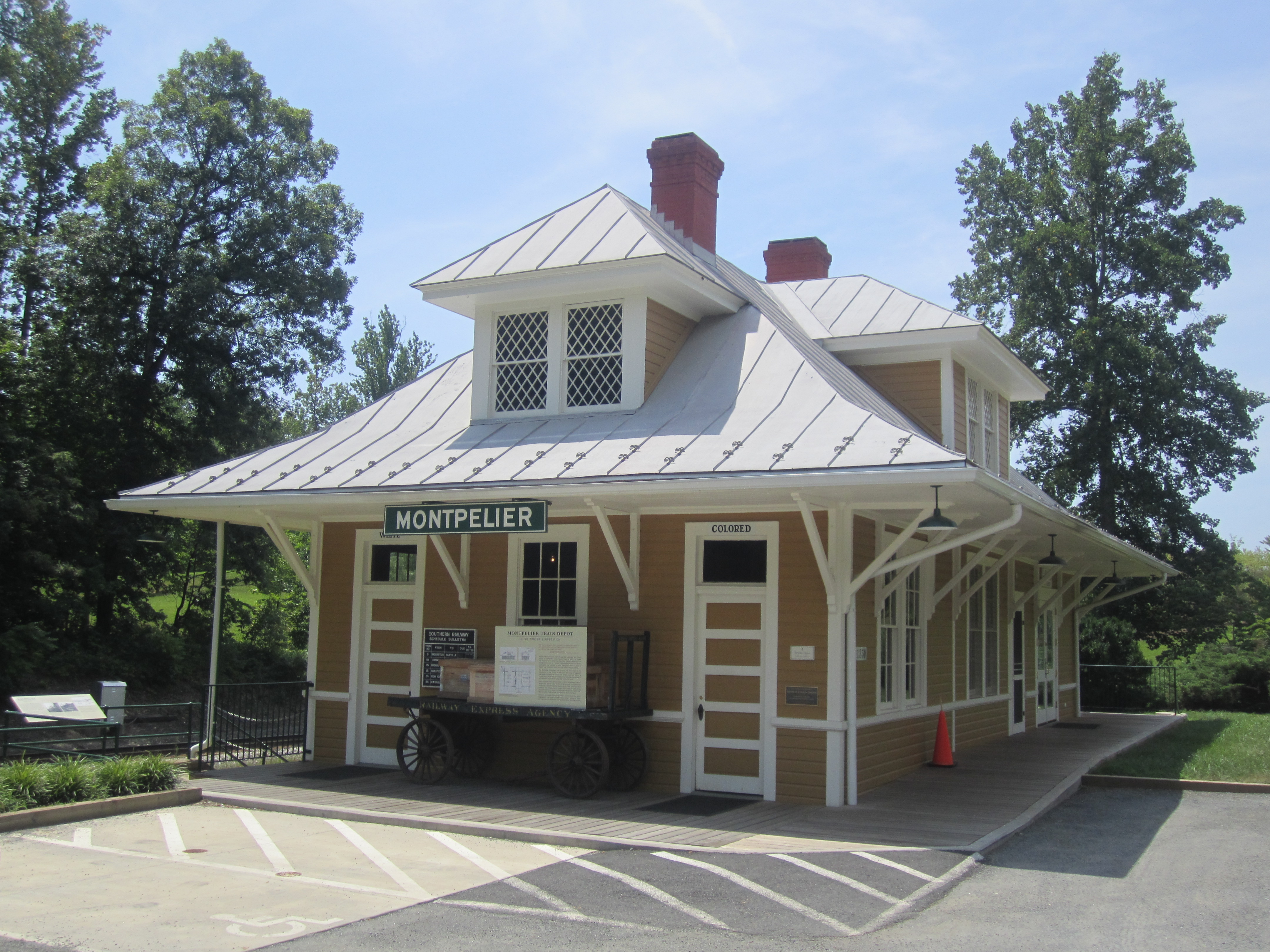 I took photo with Canon camera of restored Montpelier railroad depot near Montpelier estate in Orange, VA.